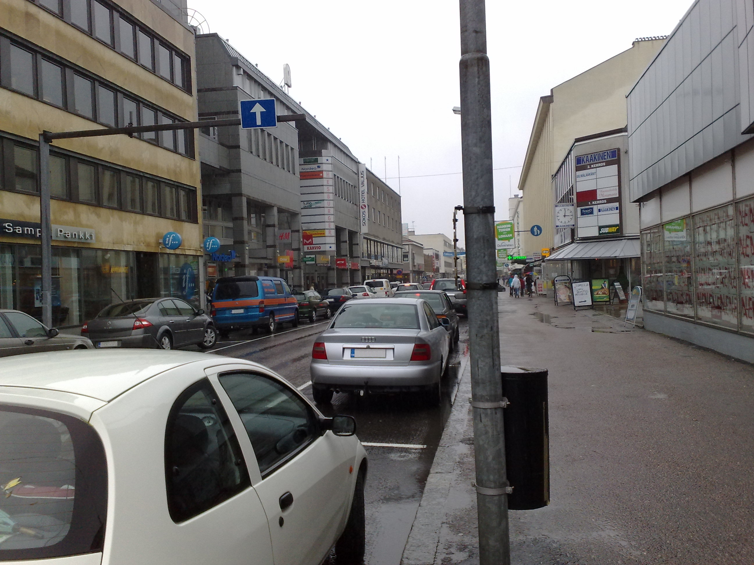 The one-way street "Kauppakatu" in Kajaani, Finland. Direction towards the northwest. Taken in 9th of July, 2012.